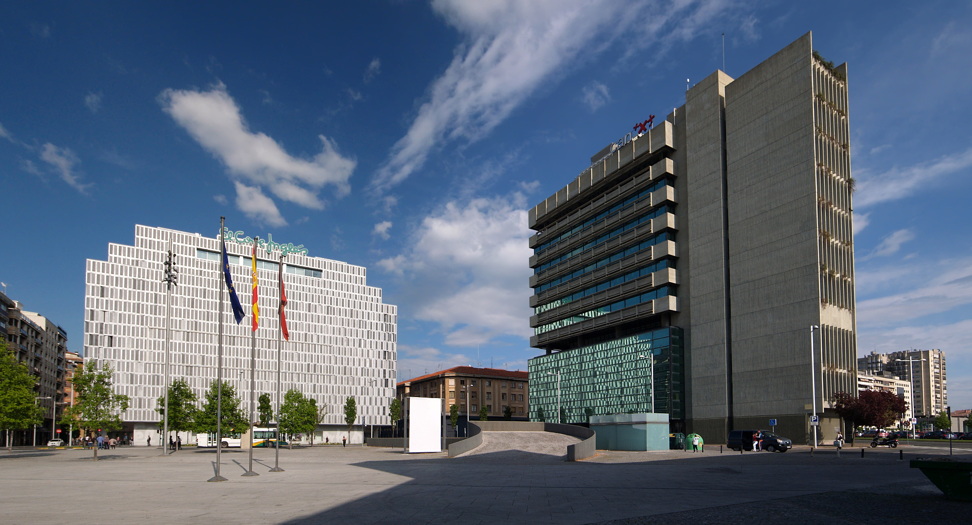 Plaza del Baluarte, Colegio de Abogados de Navarra and El Corte Ingles. Stitch of 2 horizontal images